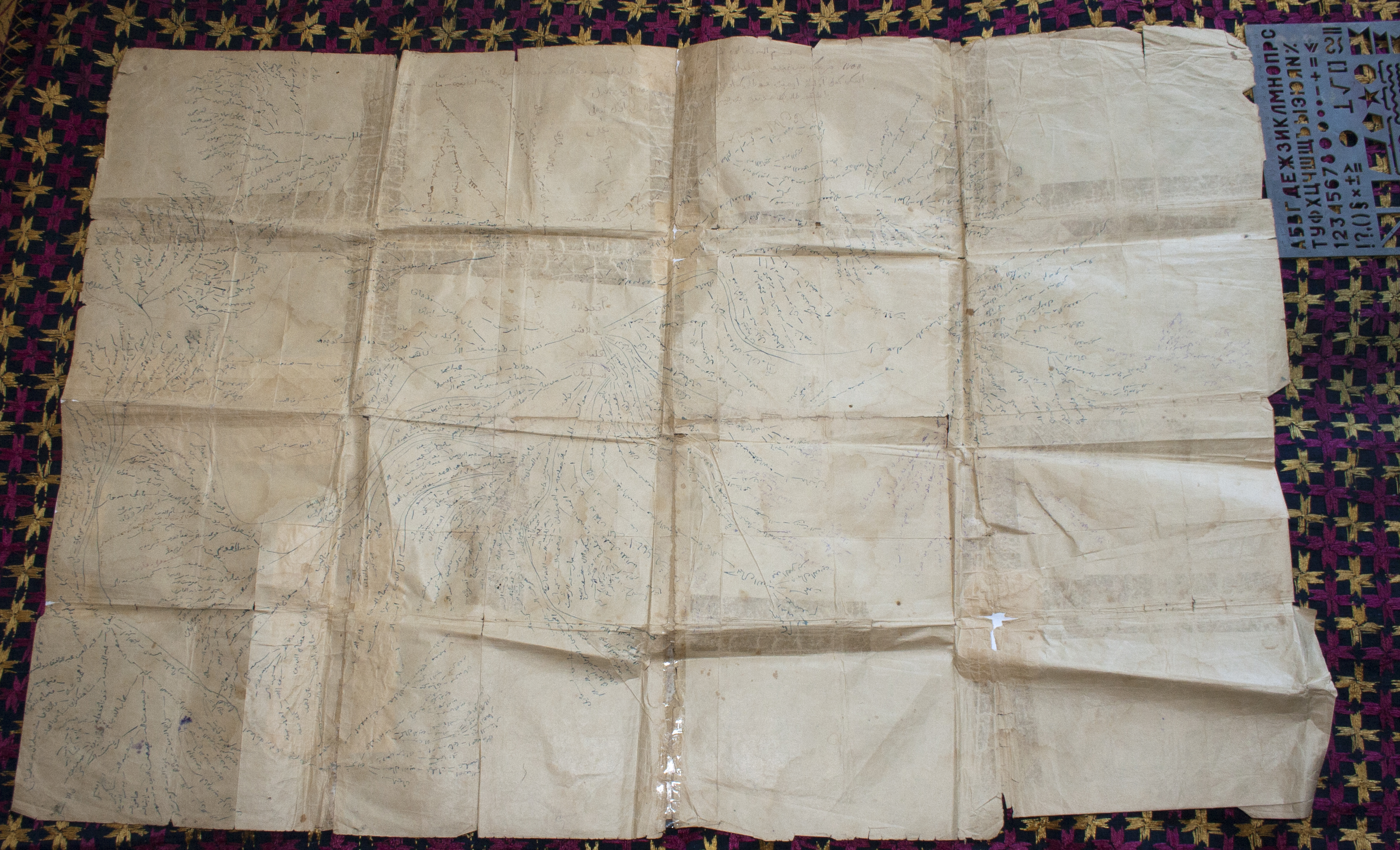 One of the few extant large Bashkir shezhere(genealogy).In this shezhere language Turki described the genealogy of the genus around since the early 15th century to the early 20th.By shezhere in writing, he began to conduct from 1700 year.This shezhere a copy the original or a copy of an earlier about the late 19th century (determined by the type of paper) with later upgrade.In uppercase lettering shezhere contains information about what kind of Bulekey-kudey arrived in the Urals 833 year.Foto made in 2012.